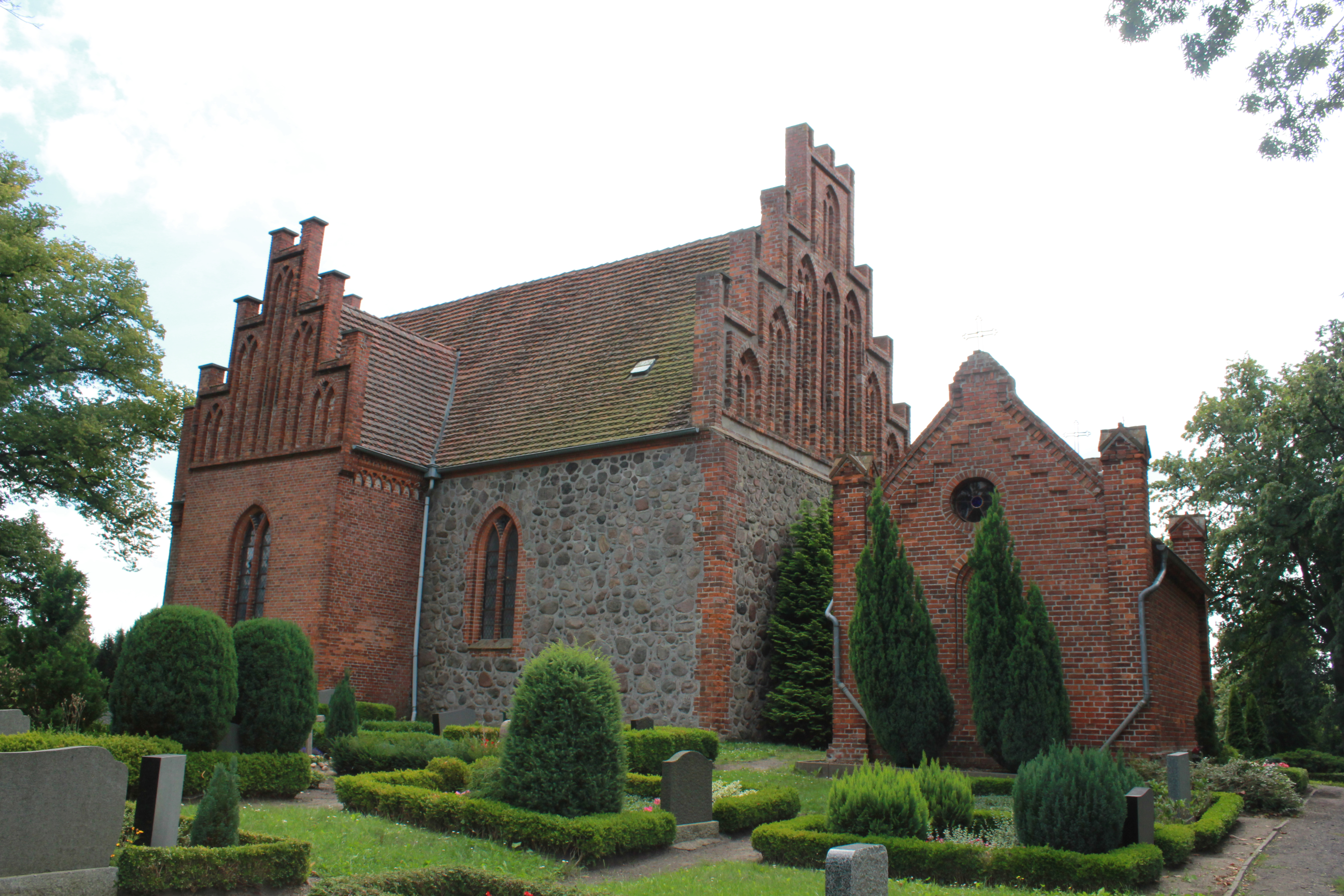 northside of the Church Karow in Germany